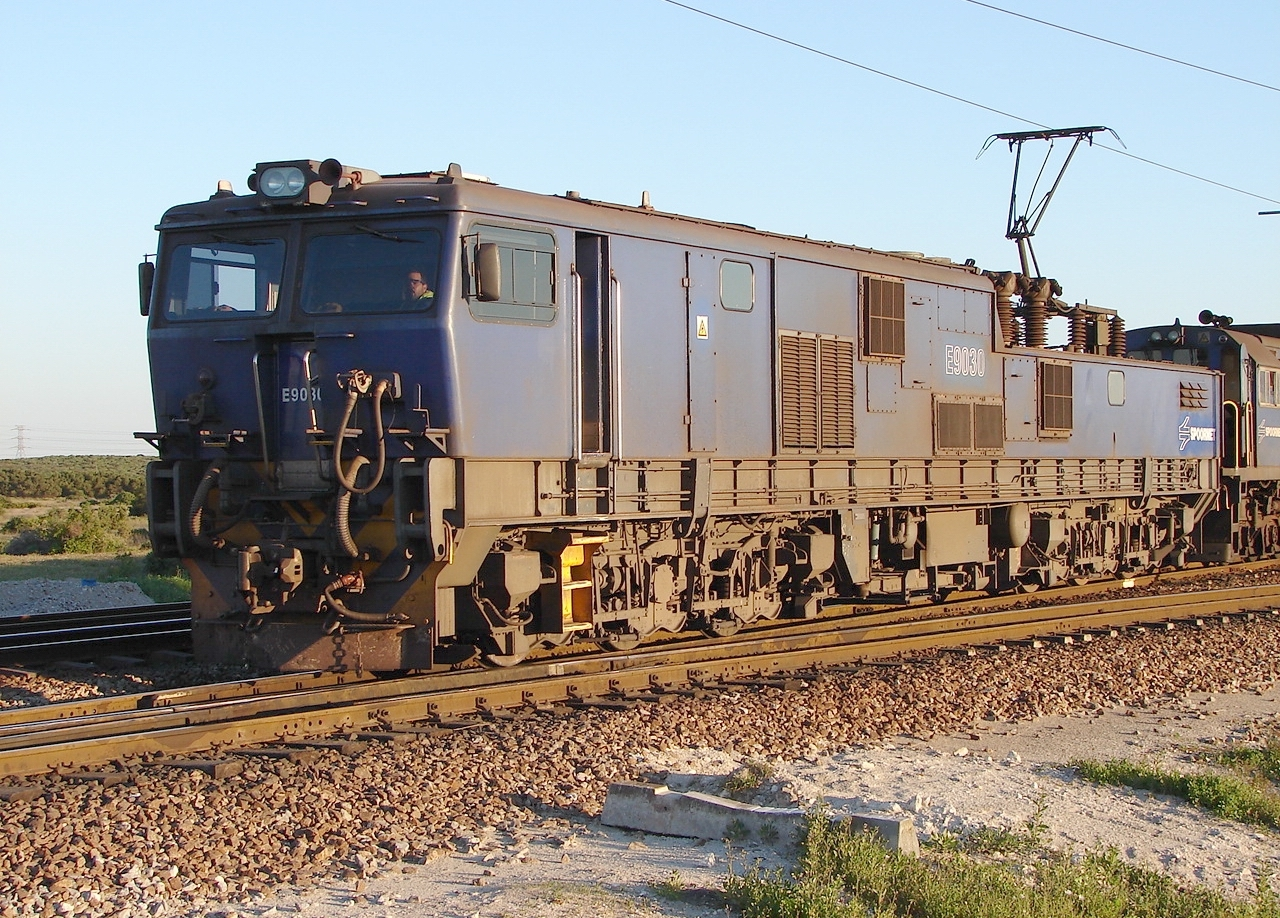 SAR Class 9E Series 2 E9030 Builder's Number: GEC 5599 Location: Saldanha, Western Cape